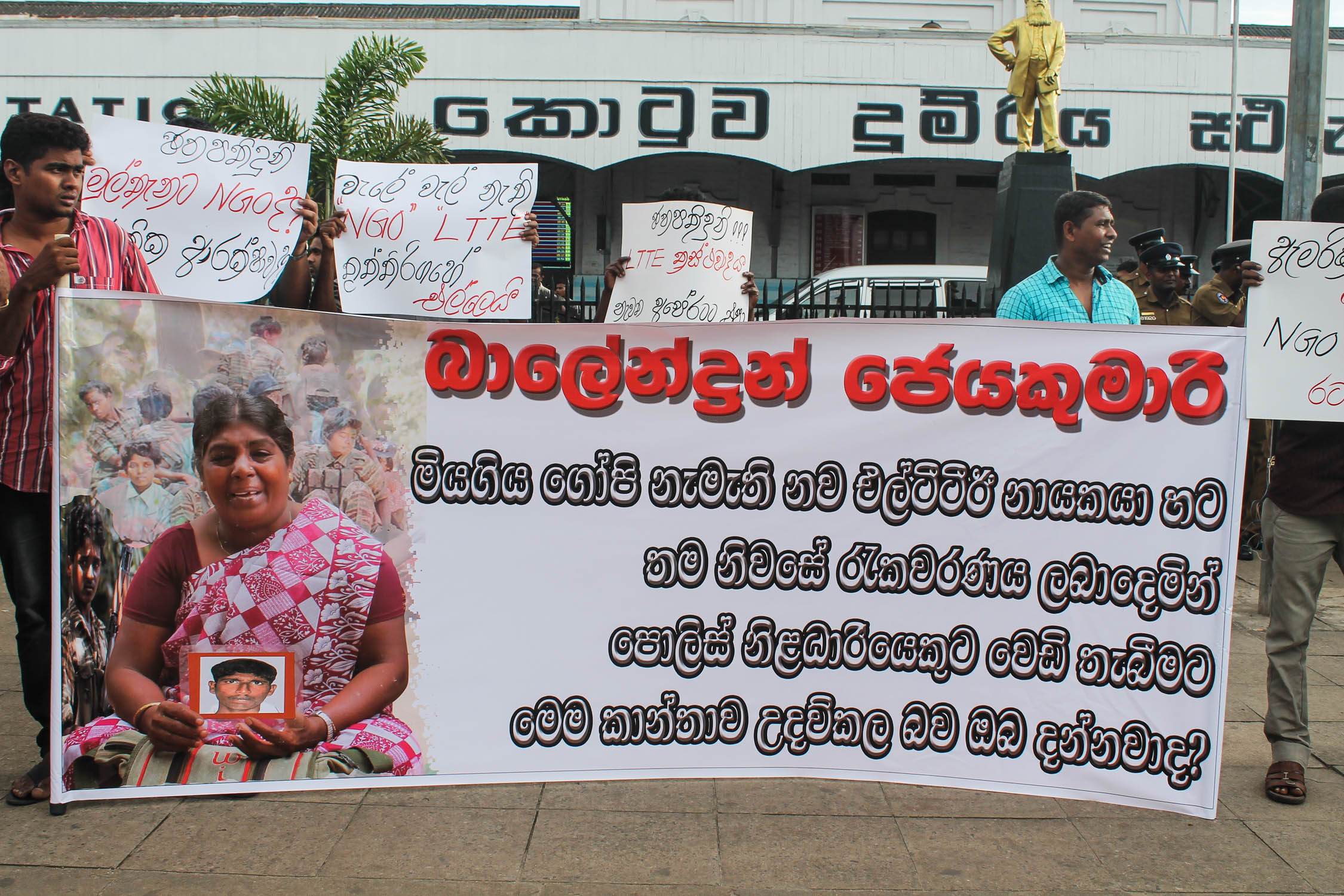 IMG_4937 Government supporters counter-protest against the "Free Jeyakumary" protest in front of railway station, Colombo, Sri Lanka on 29 September 2014